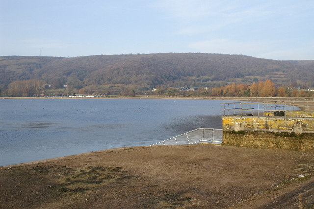 Cheddar Reservoir - very low water level